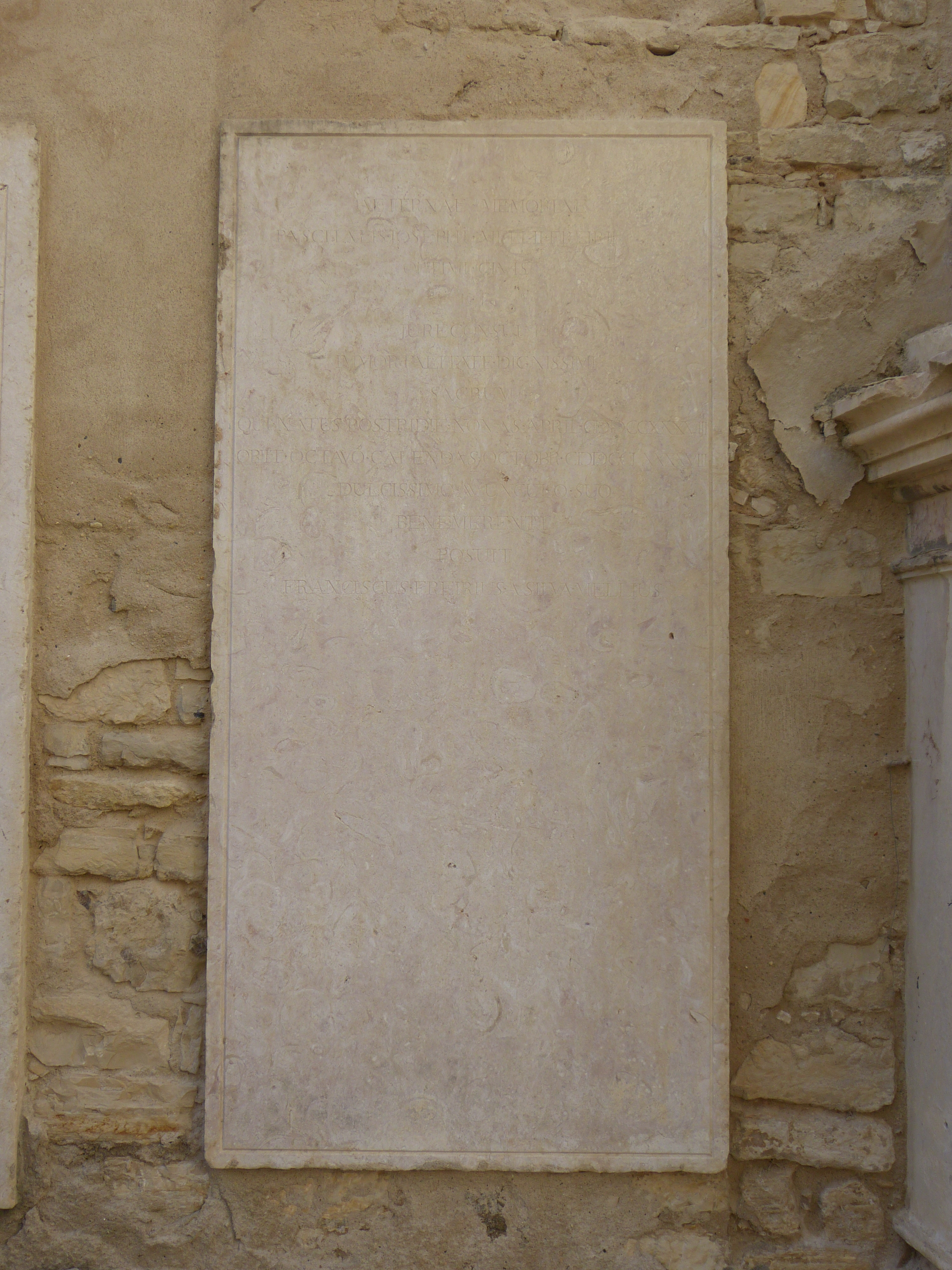 Gravestone of Pascoal José de Melo Freire dos Reis, 18th century